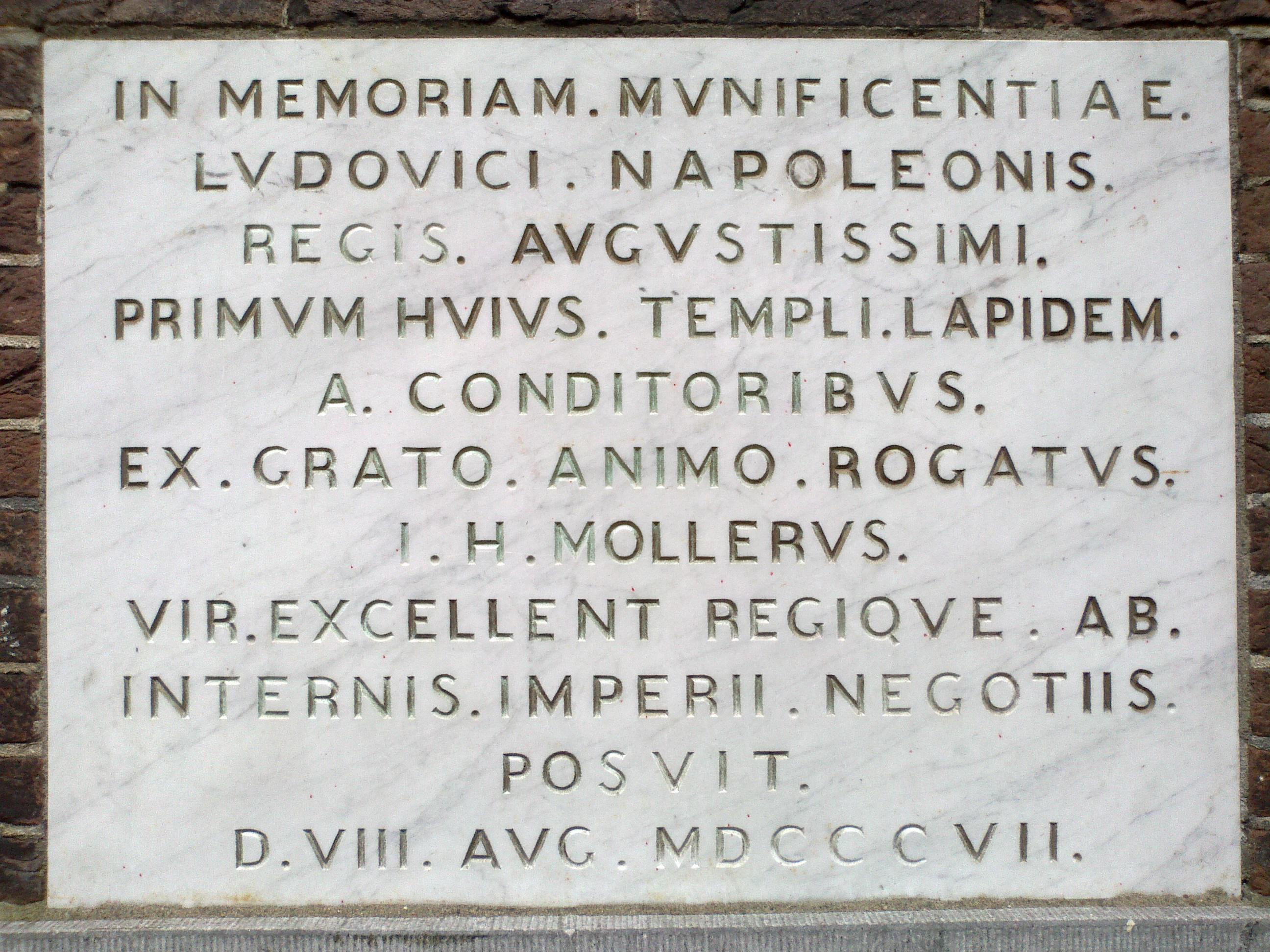 IN MEMORIAM. MVNIFICENTIAE. LVDOVICI. NAPOLEONIS. REGIS AVGVSTISSIMI. PRIMVS HVIVS. TEMPLI. LAPIDEM. A. CONDITORIBVS. EX. GRATO. ANIMO. ROGATVS. I. H. MOLLERVS. VIR. EXCELLENT REGIQVE. AB. INTERNIS. IMPERII. NEGOTIIS. POSVIT. D. VIII. AVG. MDCCCVII.